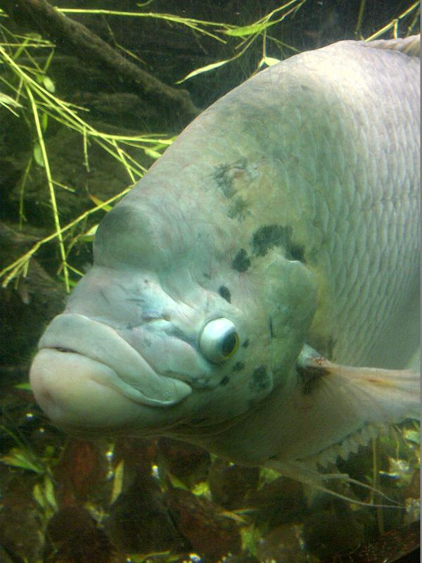 Giant gourami (Osphronemus goramy) at the Bristol Zoological Gardens, in England.